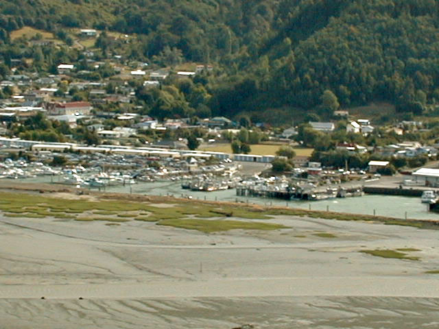 Part of Havelock, New Zealand, at low tide. Photographed from a lookout on Queen Charlotte Drive. Photograph by Richard Grevers user:dramatic December 29 2000.